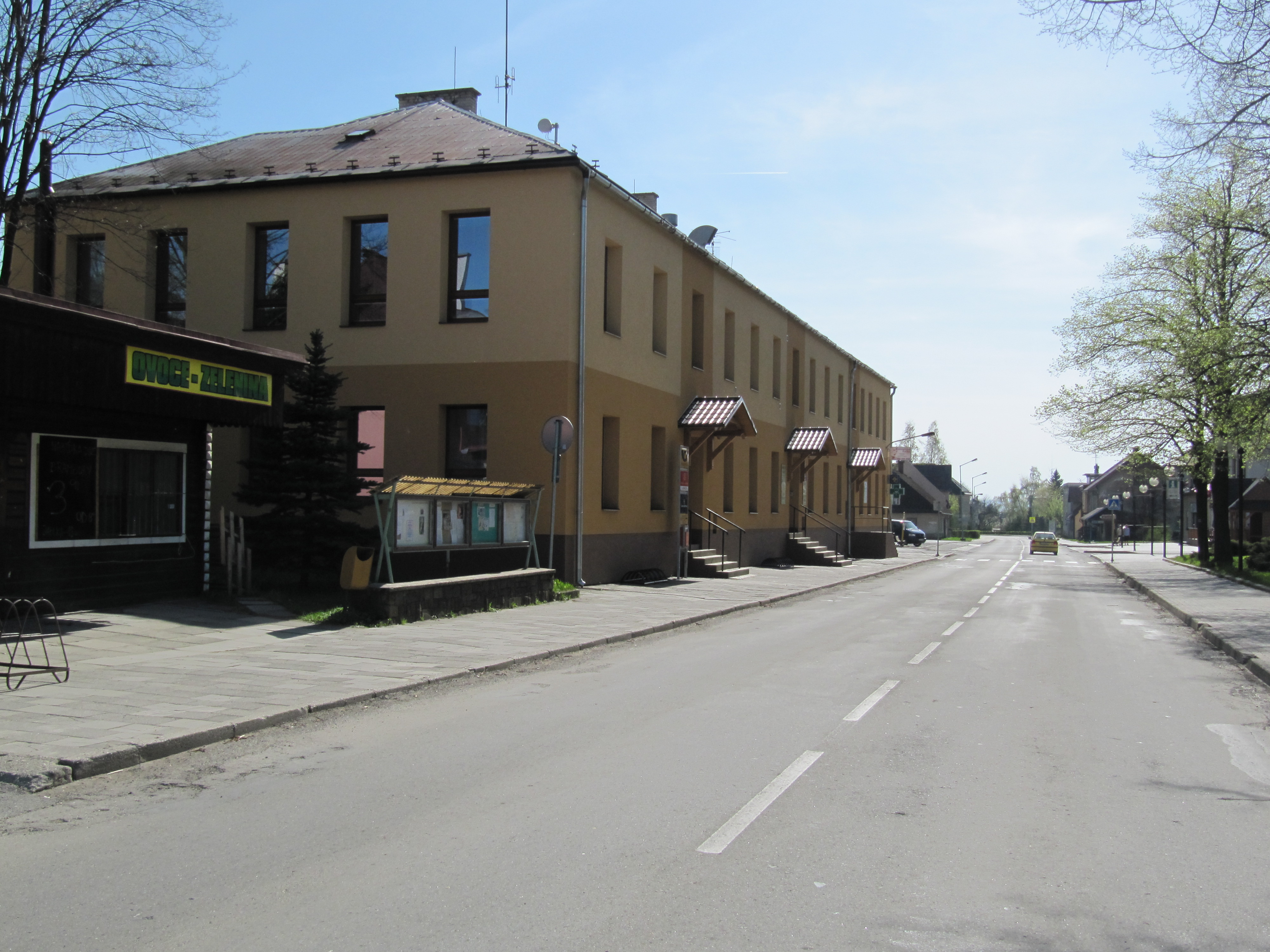 Nový Hrozenkov, Vsetín District, Czech Republic.